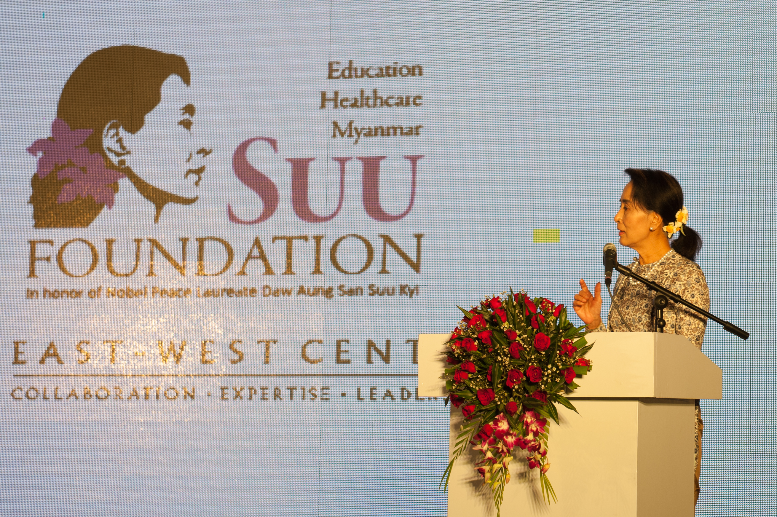 RANGOON, Burma (March 9, 2014) Nobel Peace Prize laureate Daw Aung San Suu Kyi addresses the participants of the East-West Center International Media Conference at a special pre-conference luncheon and announced the launch of the Suu Foundation, a humanitarian organization dedicated to advancing the health and education of the people of Myanmar (Burma). Former U.S. Secretary of State Hillary Clinton and former First Lady Laura Bush, who are honorary co-chairs of the foundation, delivered video messages at the launch event. [State Department photo by William Ng/Public Domain]